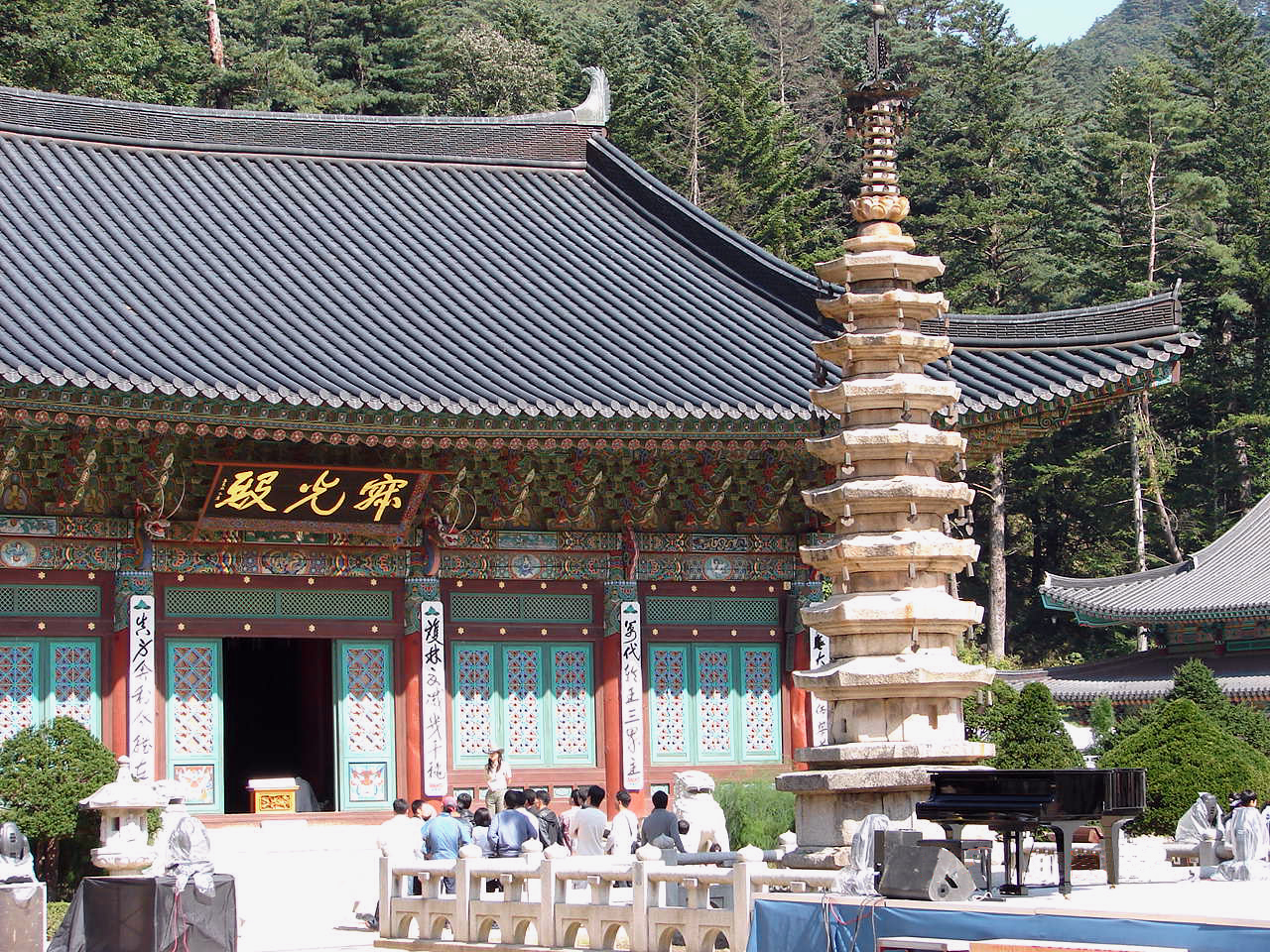 Woljeongsa Octagonal Nine Story Stone Pagoda, called the Sari-pagoda (relic pagoda), is believed to have been constructed in the 10th century. 'Woljeonsa'a Octagonal Nine-Story Pagoda is a multi-angled stone pagoda standing 15.2 meters/50 foot high and is representative of the multi-storied pagodas popular during the Goryo Period, especially in the northern regions of Korea. The presently exposed stone base is not the original. The original base is now below the surface. A flat stone base has been laid over the original base and is carved with lotus flowers and other images.Pillars are delicately carved into each corner of the upper face of the stone. The shape of the first tier and the door-frame images on all sides of the stone body along with the horizontal roof stone is representative of the Goryeo Period.The roof and body stone structure of the nine stories gives this pagoda a feeling of stability. The thin body, curved corners, door-frame on the lower body and the variations in the octagonal shape illustrate the unique and aristocratic characteristics of the Goryeo era Buddhist culture.Woljeonsa'a Octagonal Nine-Story Pagoda is National Treasure number 48.